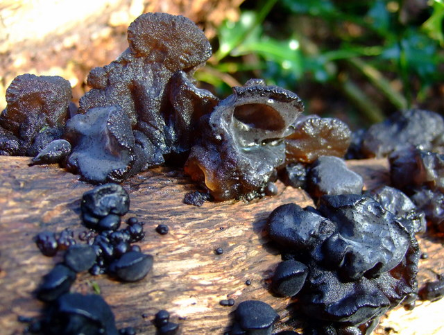 Black witch's butter (Exidia glandulosa) One of the jelly fungi that are to be found on dead wood, in this case a rotten oak branch. A yellow form, Tremella mesenterica, goes by the name of Witch's butter, more understandably, but in fact the texture of these fungi is nothing like butter, being gelatinous - more so in wet weather than in dry when it shrivels and turns hard. It is often described as having a warty surface (slightly visible here); this is caused by another fungus, Heteromycophaga glandulosae, which is parasitic upon this one: "Big fleas have little fleas...etc"! Found in the damp woodlands of the Gwaun Valley.